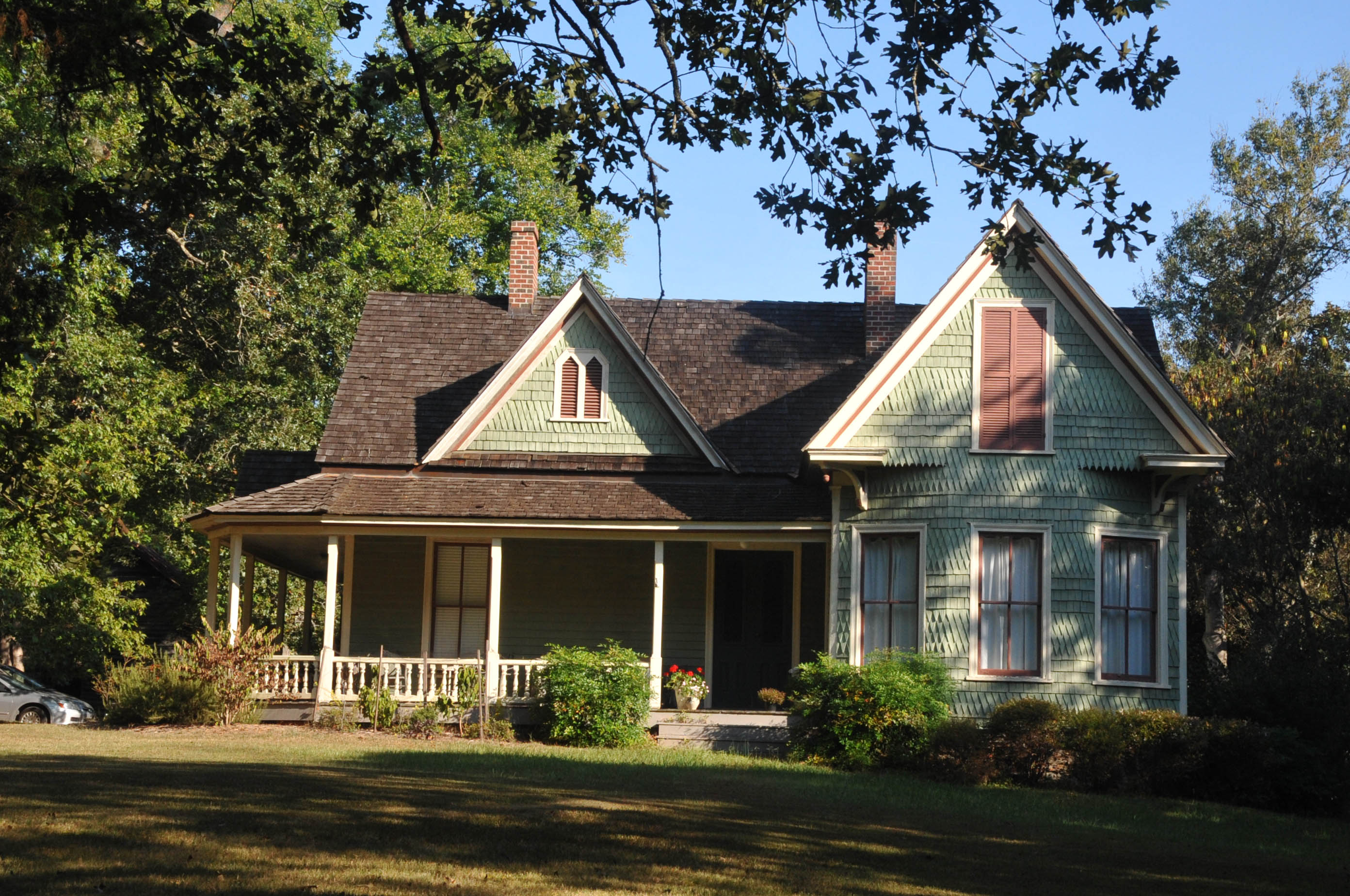 1895 VICTORIAN QUEEN ANNE